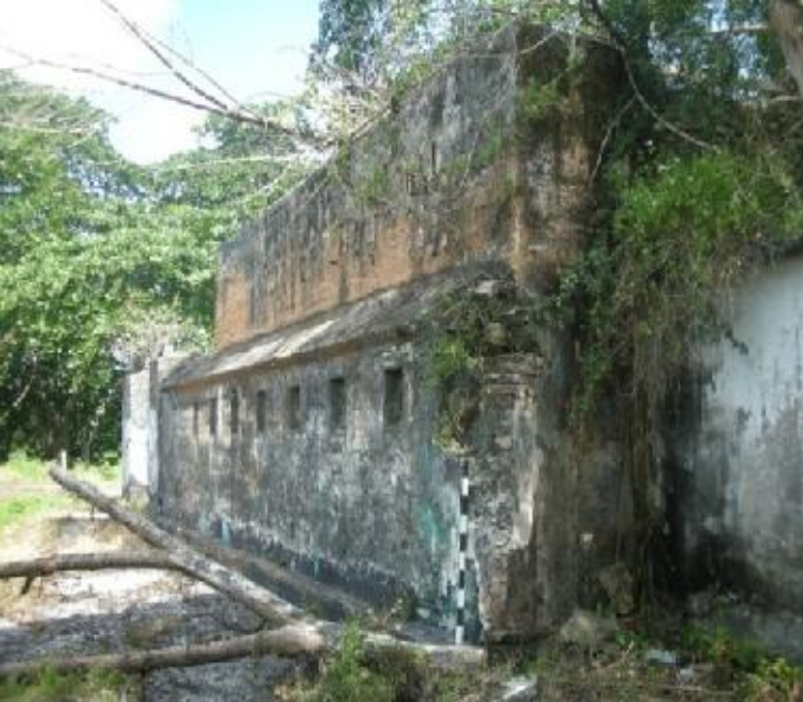 Remaining walls of Fort Toboali